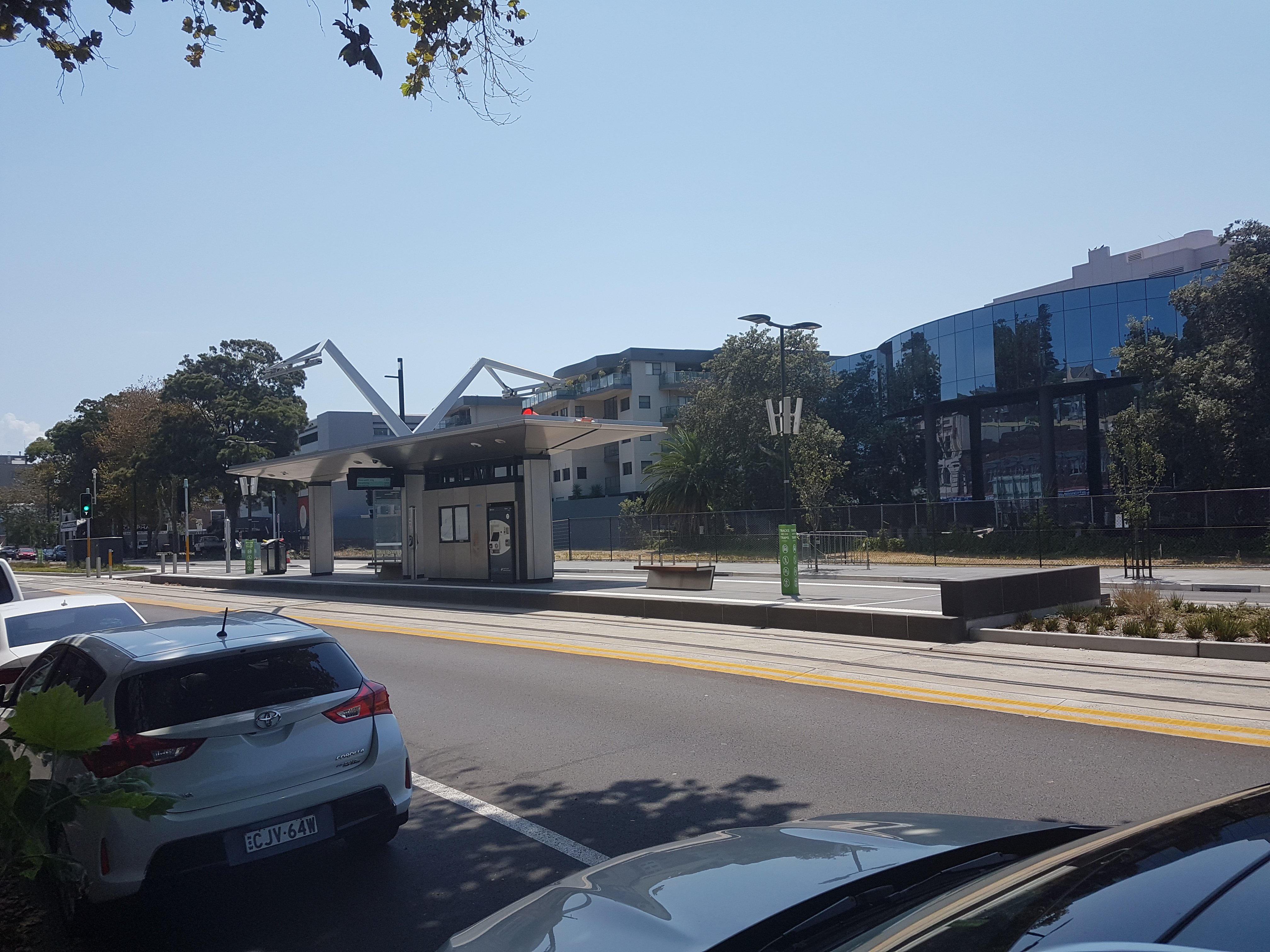 Newcastle Light Rail Crown Street station